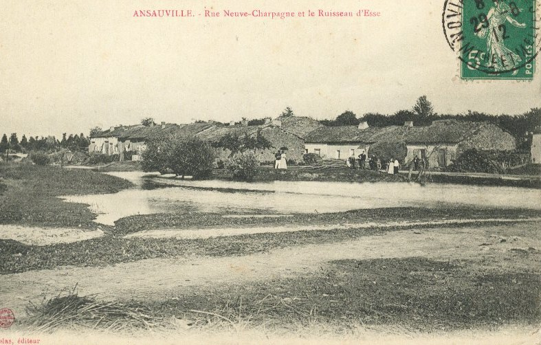 Old post card of Ansauville (Meurthe-et-Moselle ; France). New street Charpagne and Esse river.